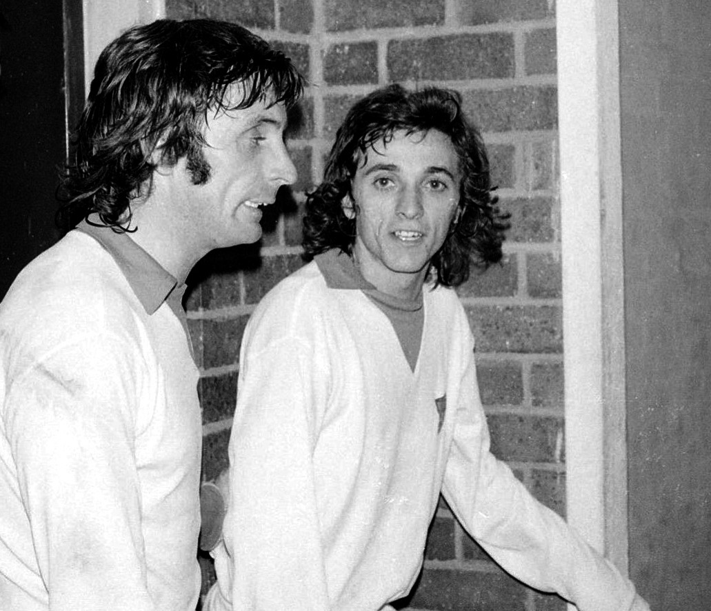 Wally Gould & Sergio dos Santos of Hellenic FC leave the dressing room 1972